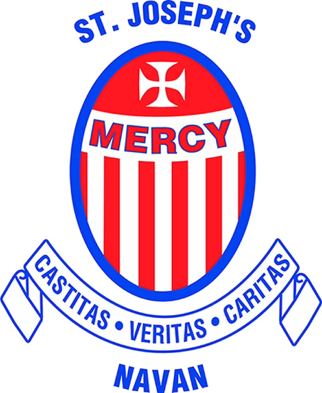 This is the crest of St. Joseph's Convent of Mercy, Navan, Co. Meath, Ireland.